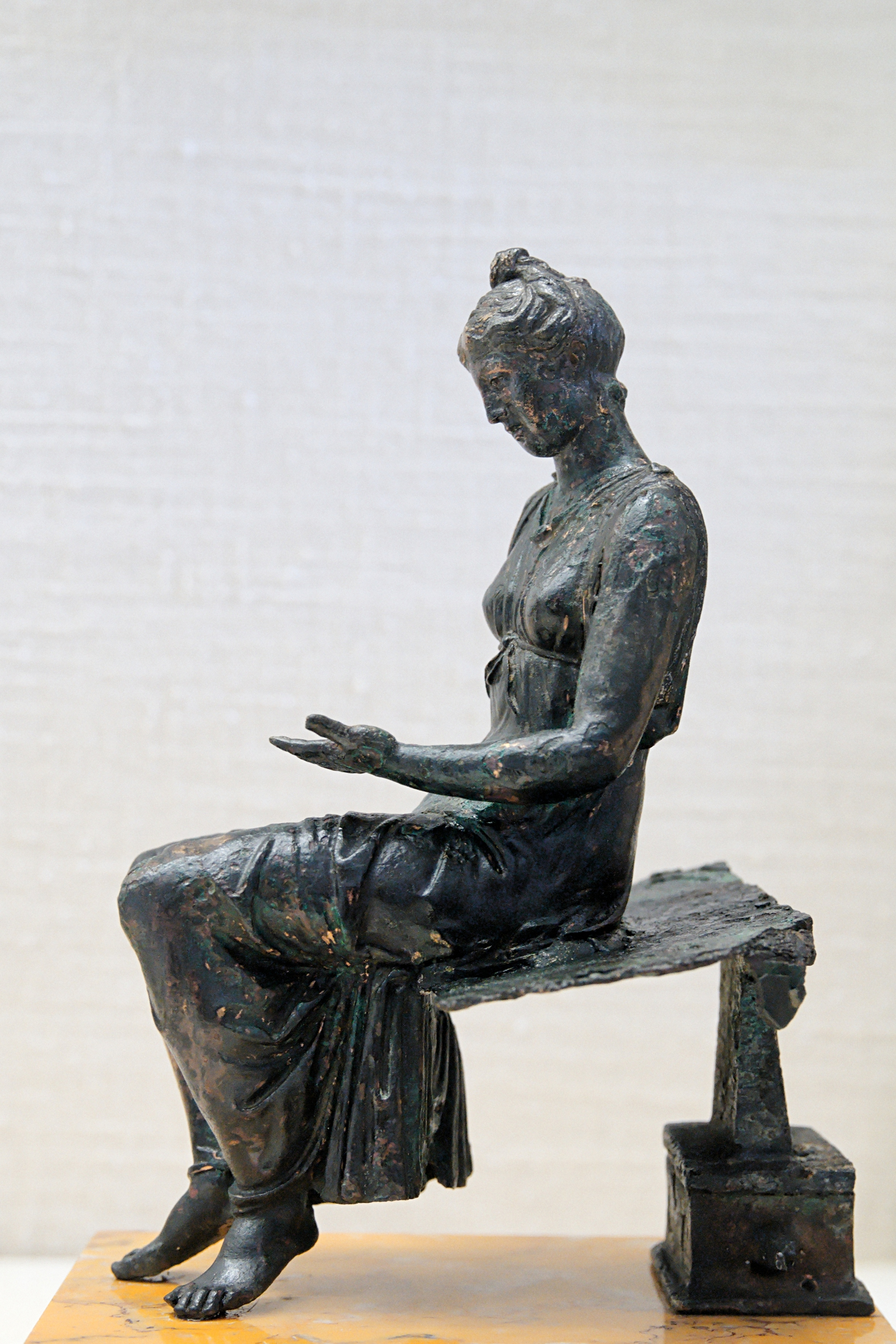 Young girl reading. Roman bronze statuette after a Hellenistic model. From Rome.